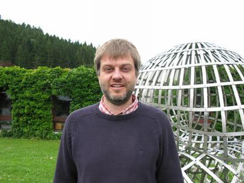 Otmar Venjakob, Oberwolfach 2009